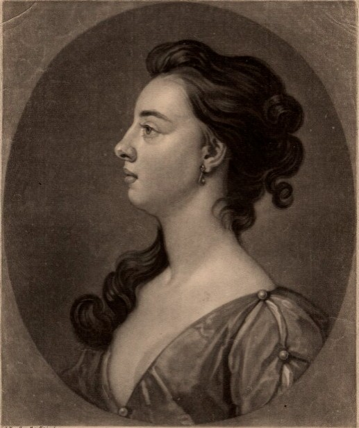 Portrait of Louisa Berkeley, Countess of Berkeley (1694–1716).